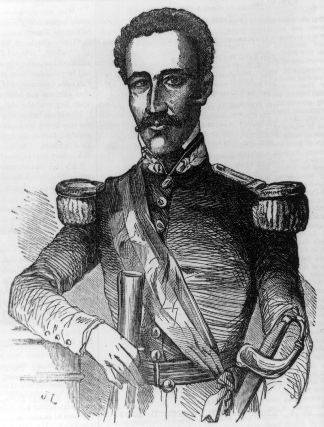 Bonaventure Baes (Buenaventura Báez), President of the Dominican Republic. Illus. in: Gleason's Pictorial, 1854 Sept. 9, p. 149.